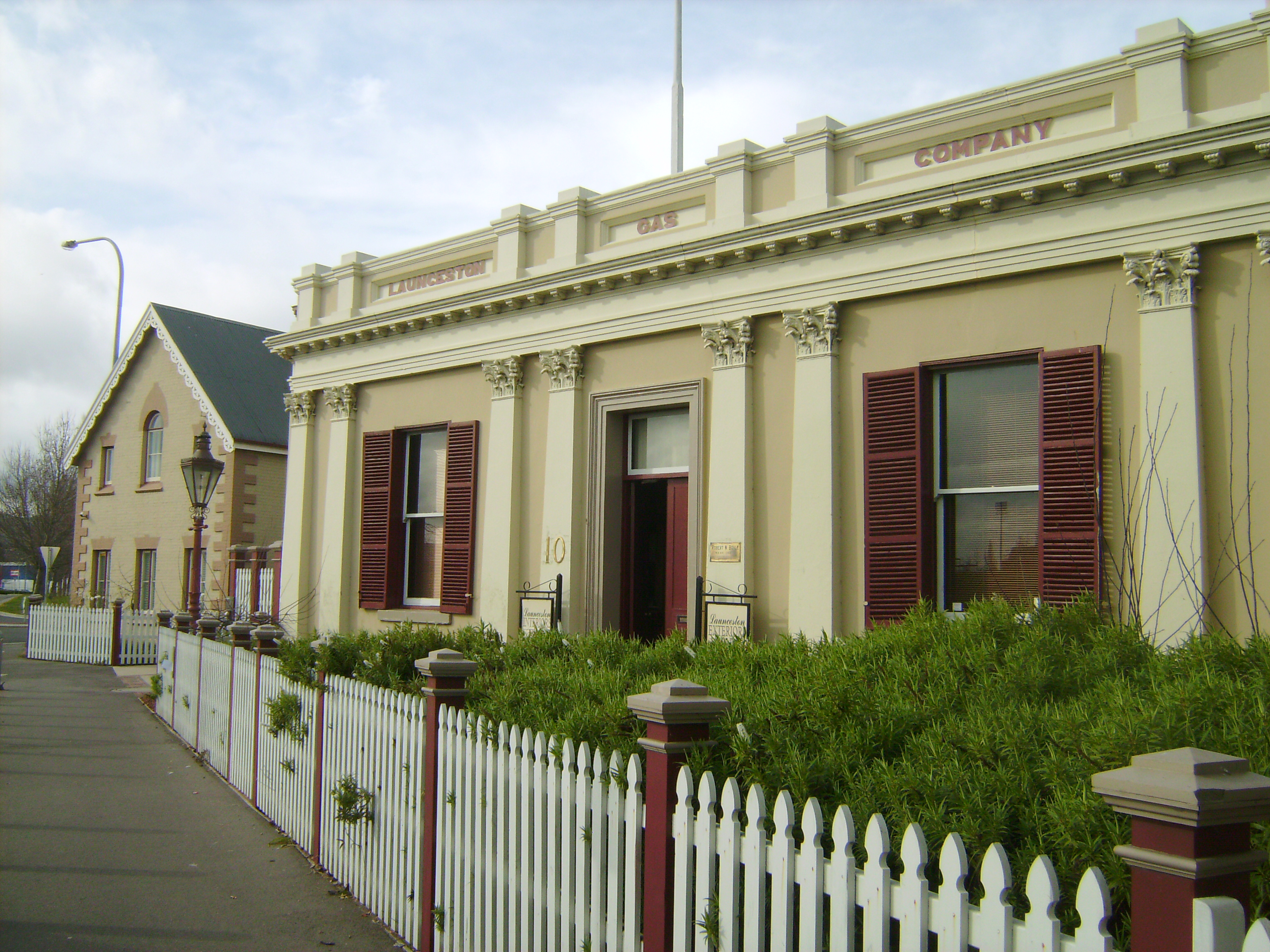 The Launceston gas works headquaters and managers cottage not long after restoration. Viewed from Boland Street. Taken July 2011.